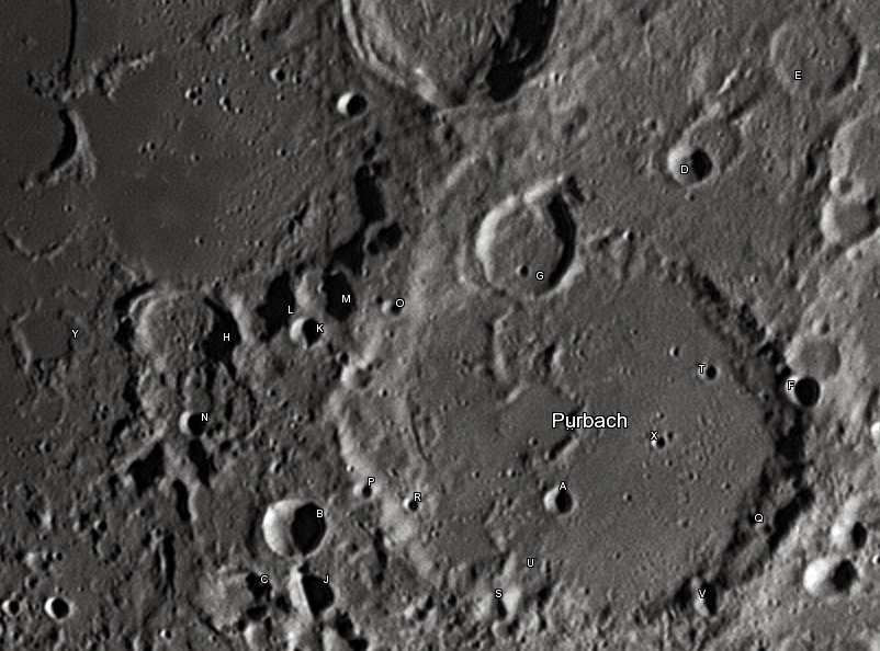 Purbach lunar crater as seen from Earth with satellite craters labeled